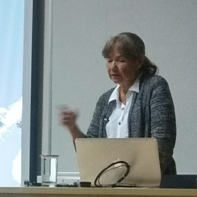 Professor Naomi E Pierce, Harvard University speaking in Bangalore, India